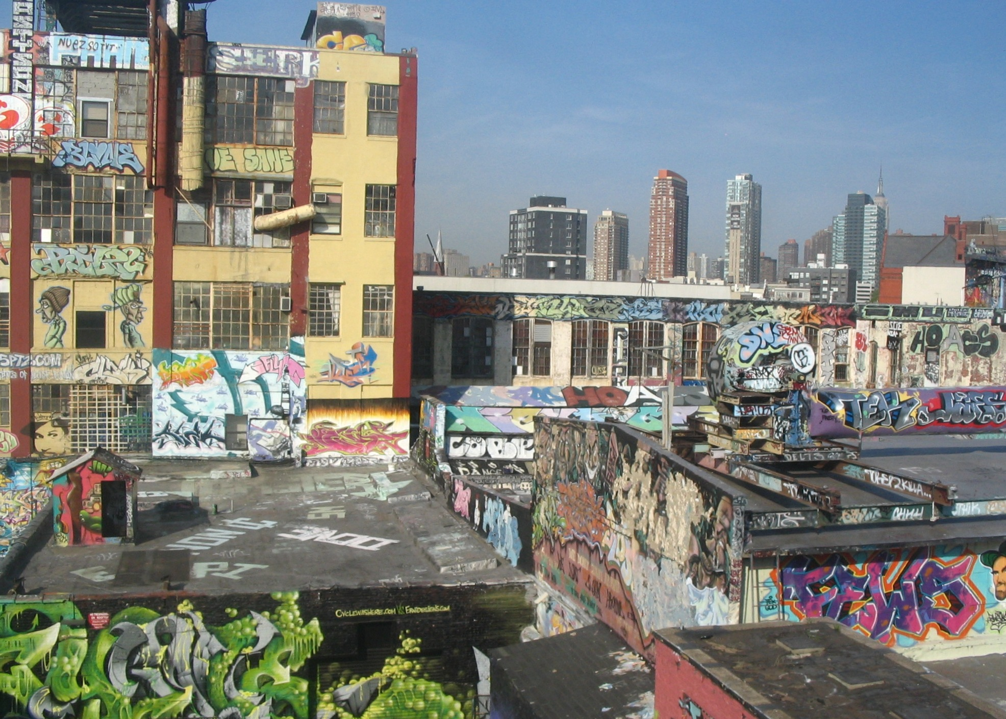 Hunters Point (Queens) New York City - 5 Pointz building